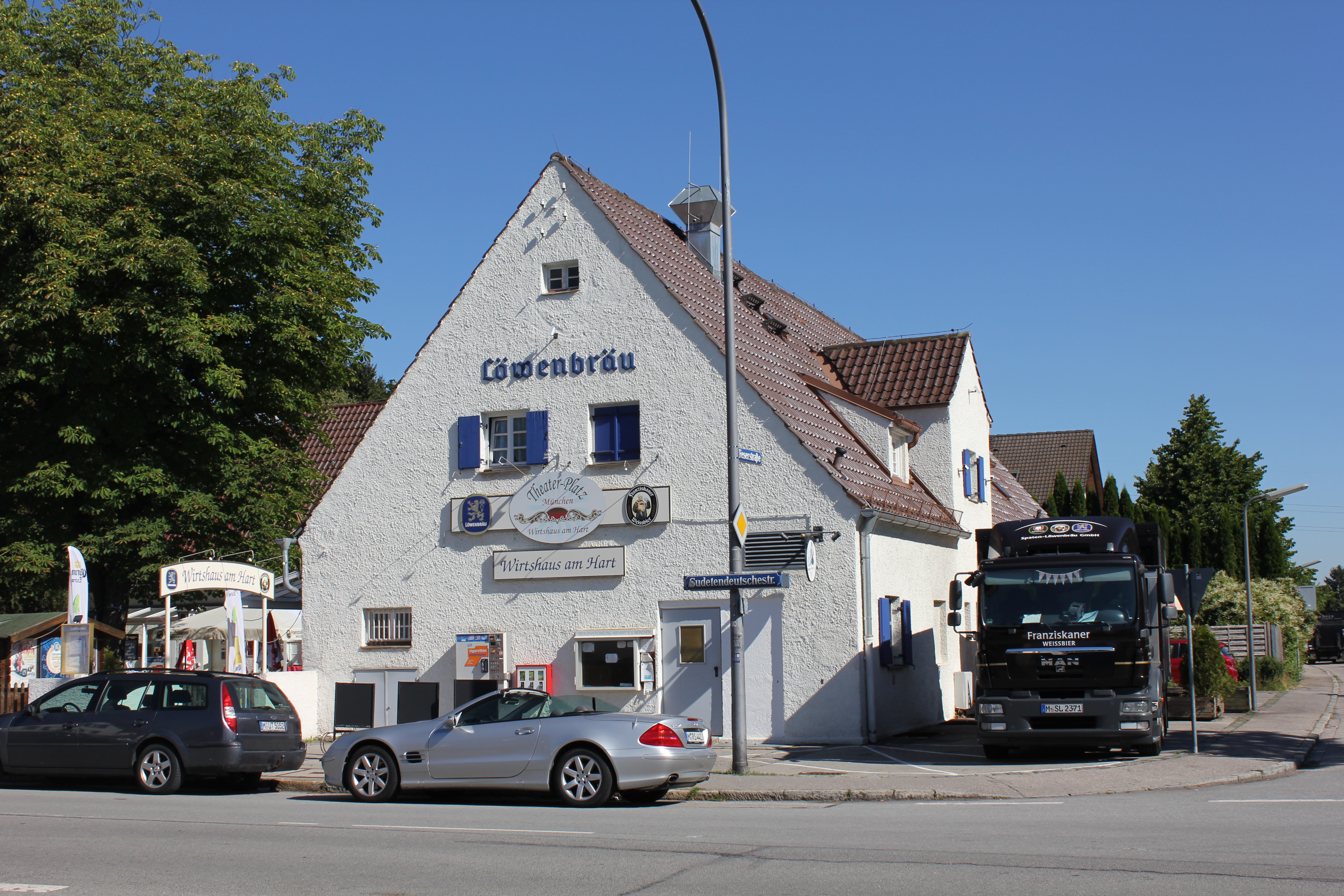 Wirtshaus am Hart, Munich, 2016